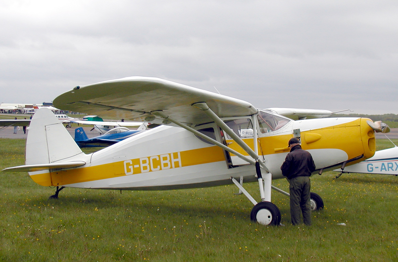 Fairchild Argus III (UK registration G-BCBH, year of build 1944) at Kemble Airfield, Gloucestershire, England.